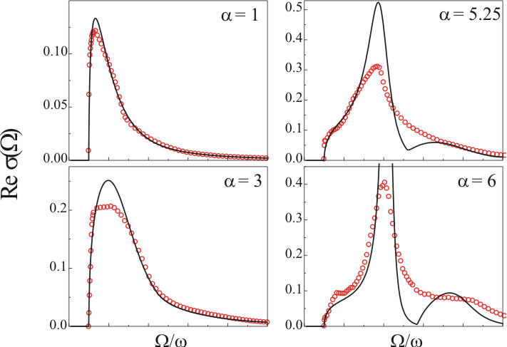 Created after: A. S. Mishchenko, N. Nagaosa, N. V. Prokof'ev, A. Sakamoto, and B. V. Svistunov, Phys. Rev. Lett. 91, 236401 (2003); J. T. Devreese, J. De Sitter, and M. Goovaerts., Phys. Rev. B, 5, 2367 (1972).